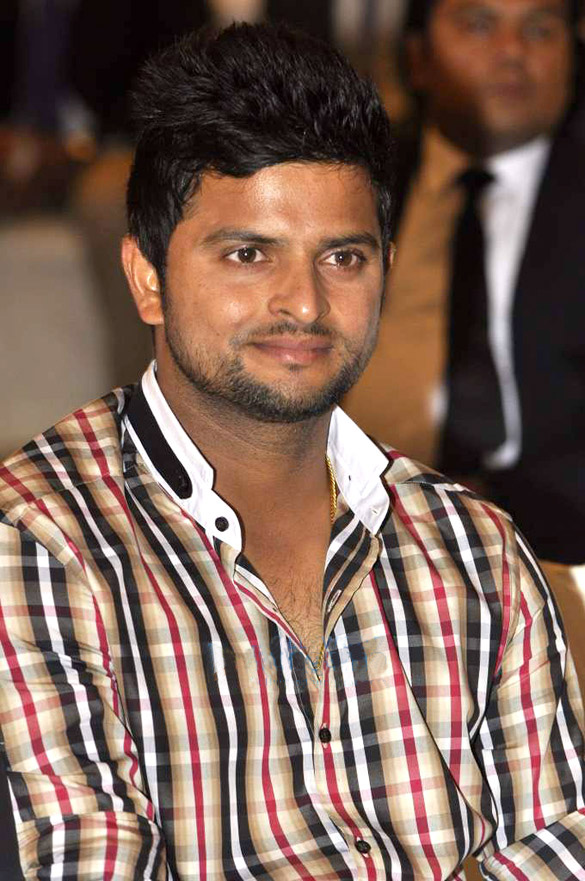 Suresh Raina grace the 'Salaam Sachin' conclave